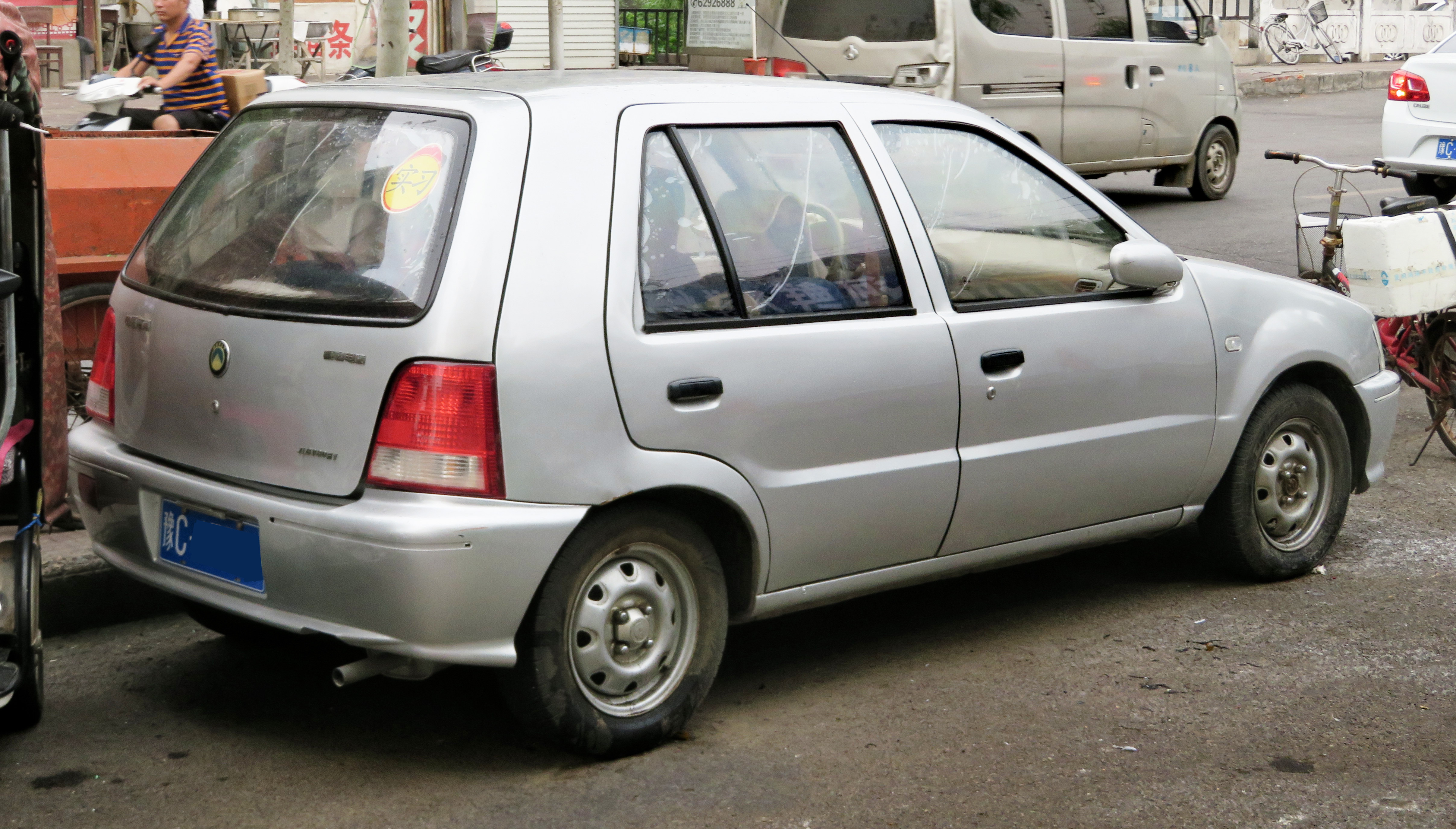 A 2003 Geely Haoqing (HQ) JL6360E1 photographed in Xigong District, Luoyang, Henan province, China